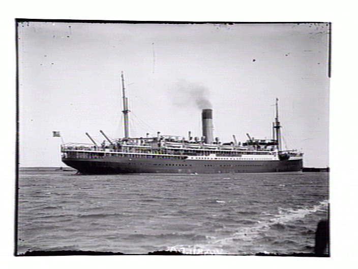 HMAT Warilda State Library of Victoria info Accession Number: H91.108/639 Image Number: b36884